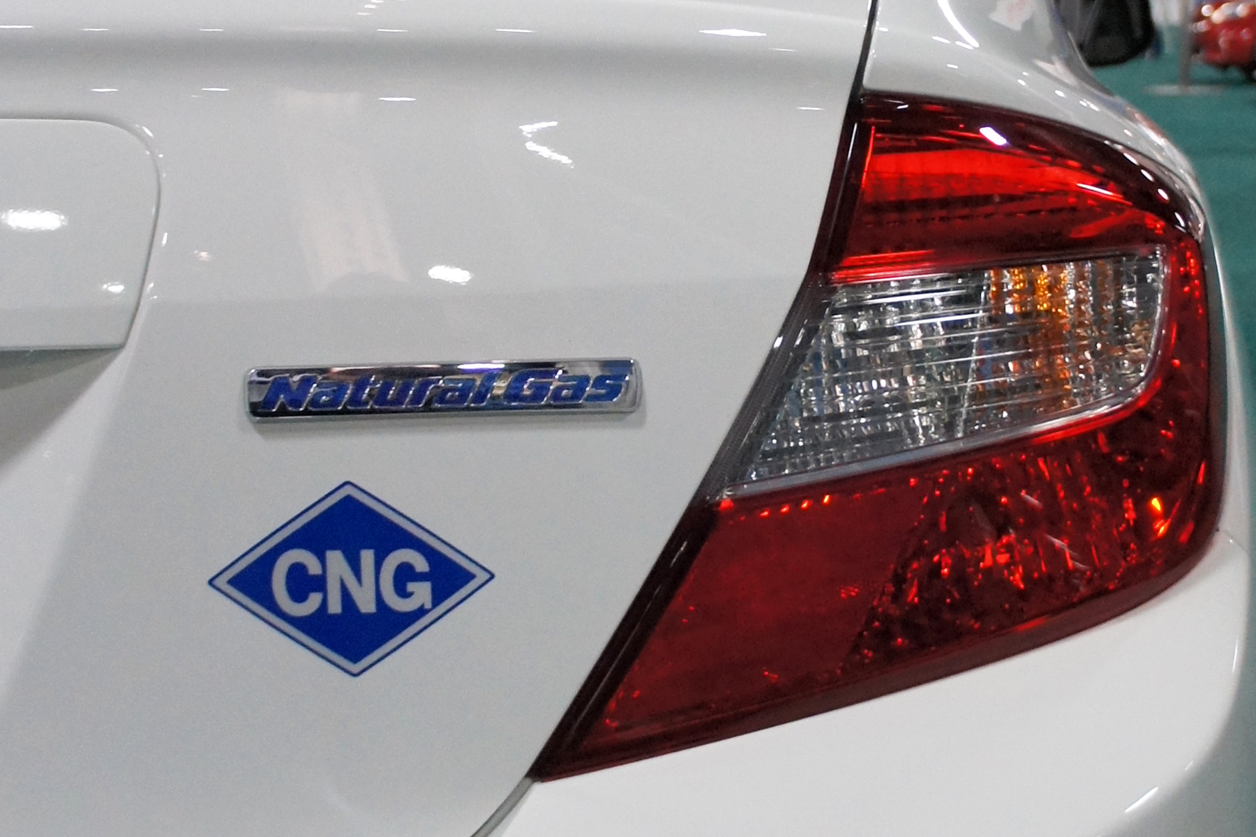 Zoom in of the 2012 Honda Civic GX compressed natural gas (CNG) vehicle badging. 2012 Washington Auto Show (D.C.)